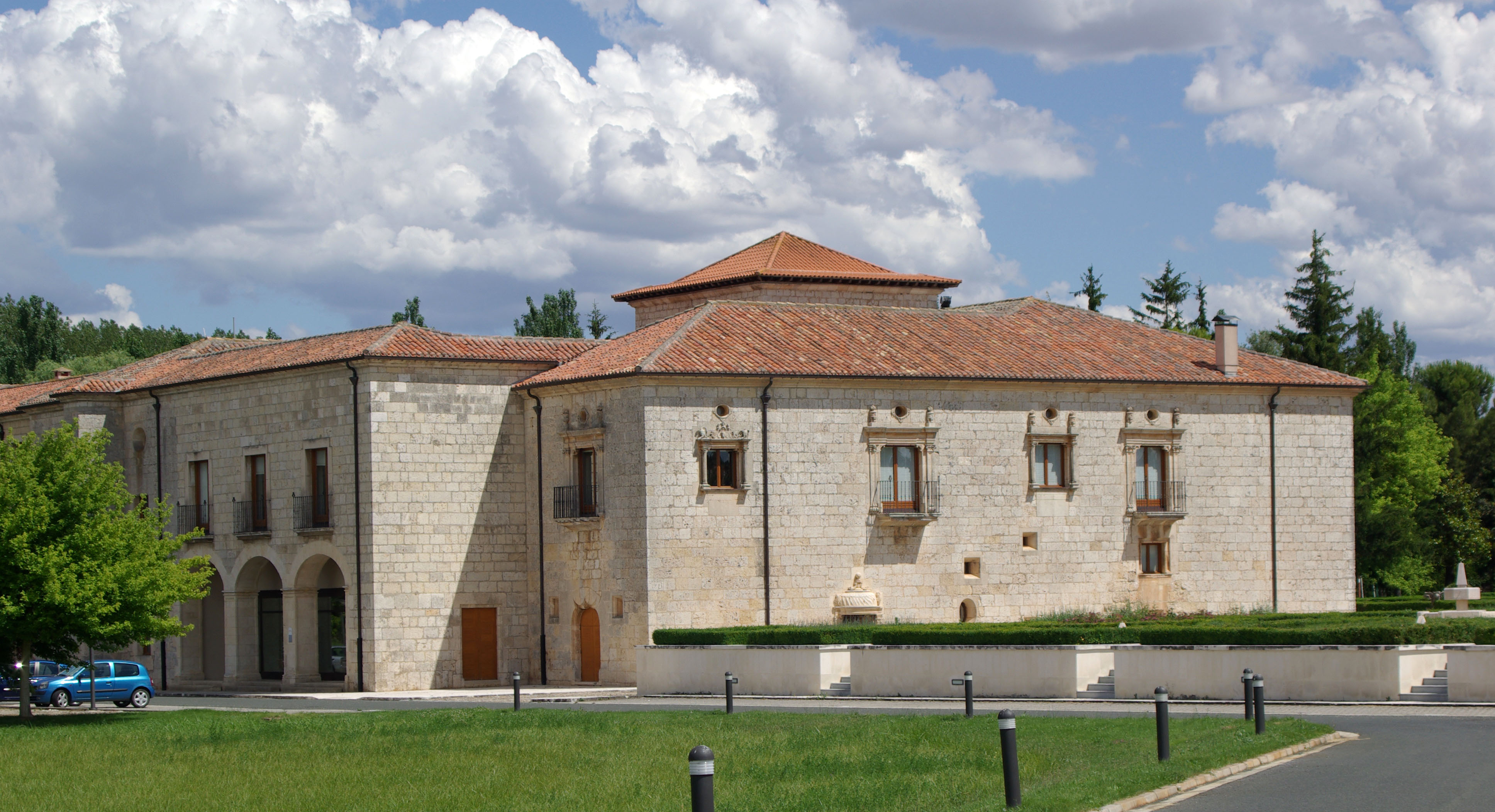 Saldañuela's Palace, Sarracín, Burgos (Spain). XV and XVI centuries.